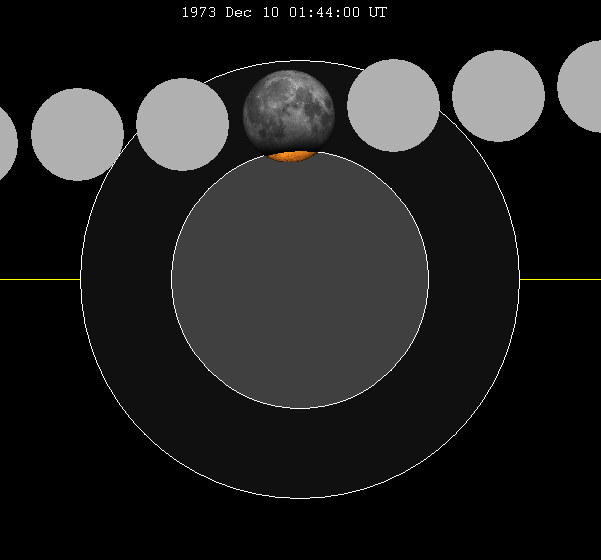 December 1973 lunar eclipse chart of moon's path through the earth's shadow. thumb